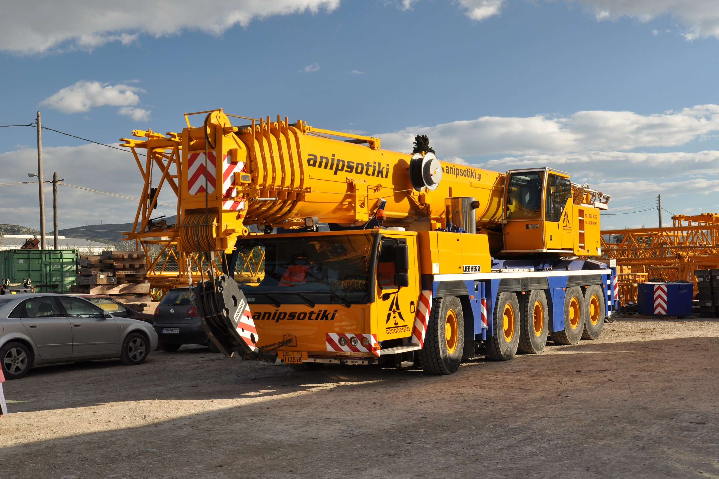 A Liebherr LTM 1200-5.1 mobile crane of Anipsotiki at Aspropyrgos, Greece.